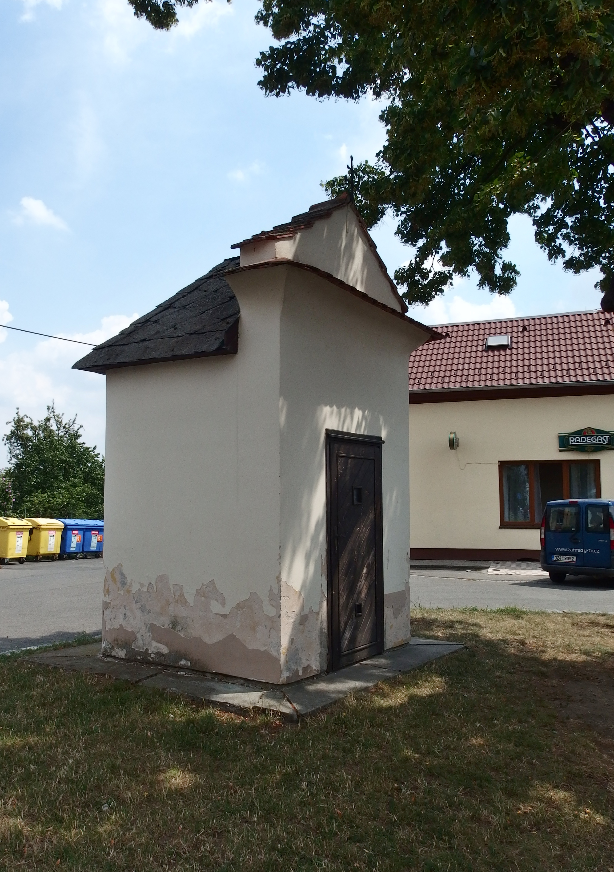 Kroměříž, Czech Republic, part Vážany.